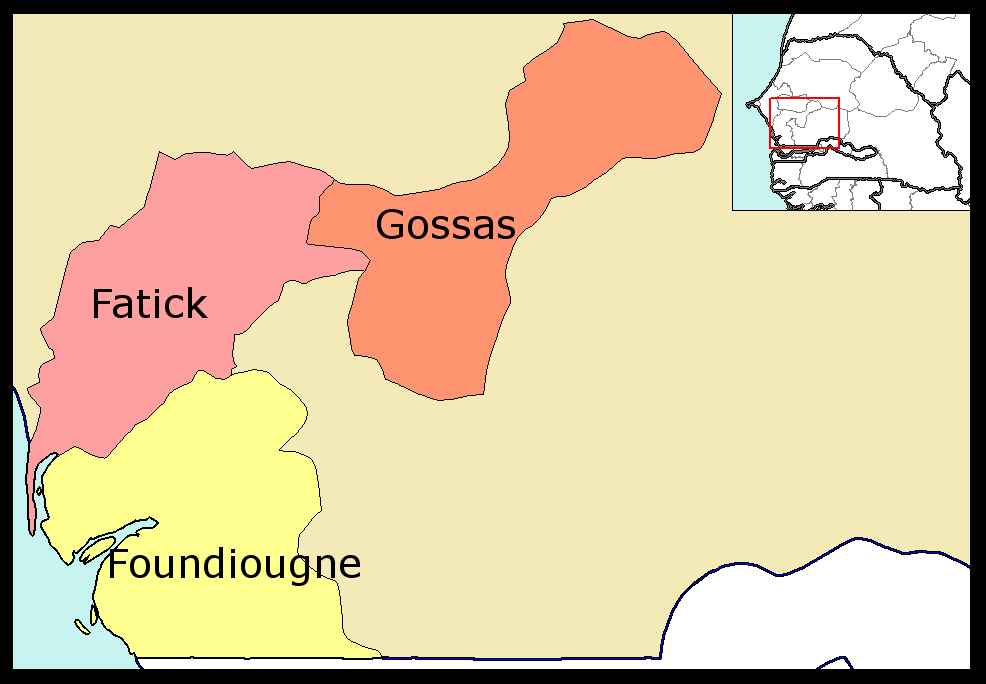 Map of the departments of Fatick region in Senegal. Created by Rarelibra 22:30, 28 December 2006 (UTC) for public domain use, using MapInfo Professional v8.5 and various mapping resources.